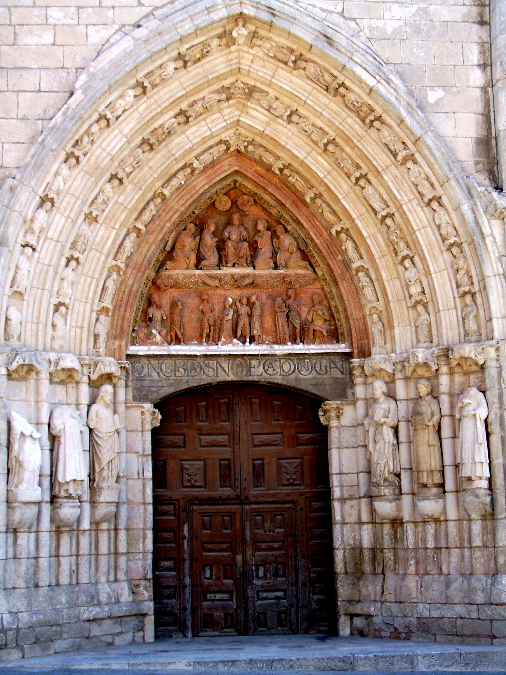 Portada gótica de la Iglesia de San Esteban, habilitada como Museo del Retablo, en Burgos (España)